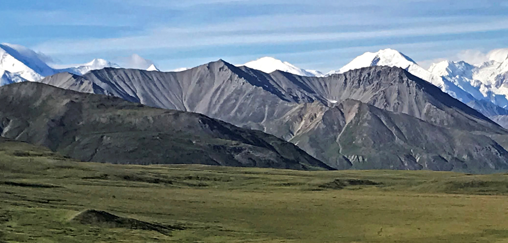 Mount Eielson in Denali National Park (looking from ~63° 27' 25.40" North latitude, 150° 13' 44.31" West longitude)